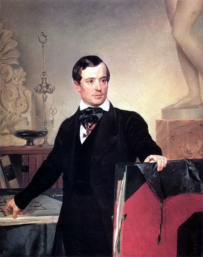 Portrait of an architect and artist Alexander Briullov. 1841. Oil on canvas. 123.5 x 97.5 cm. The State Russian Museum, St. Petersburg, Russia